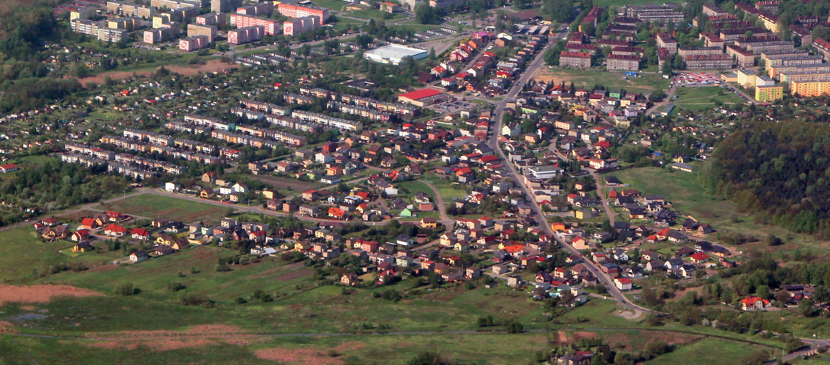 View from the northeast towards Józefka area in Piekary Śląskie, Poland.